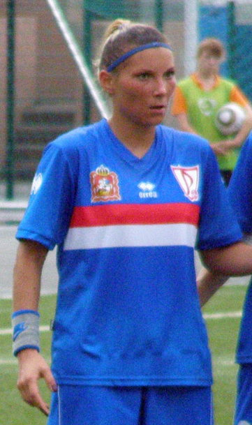 Natalia Mokshanova in action for FC Rossiyanka